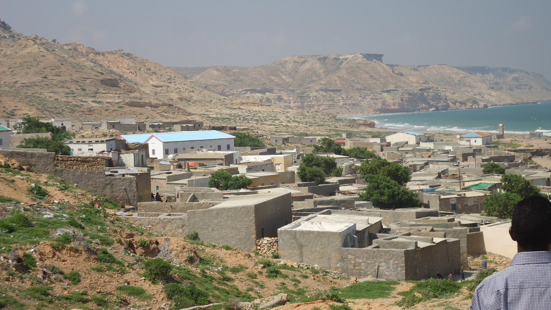 Benerbayla town(Pearl of indian ocean) Puntland Somalia